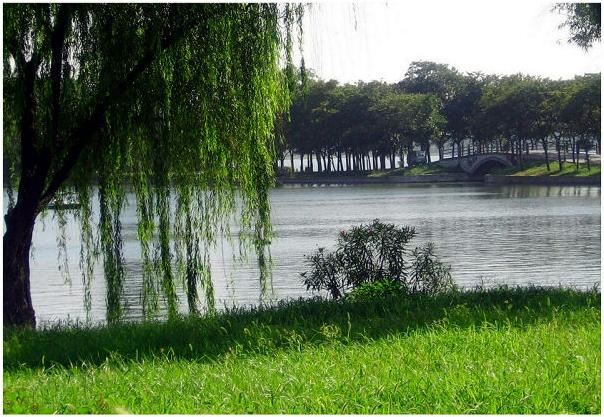 Xuanwu Lake in Nanjing, China, with willows on its bank